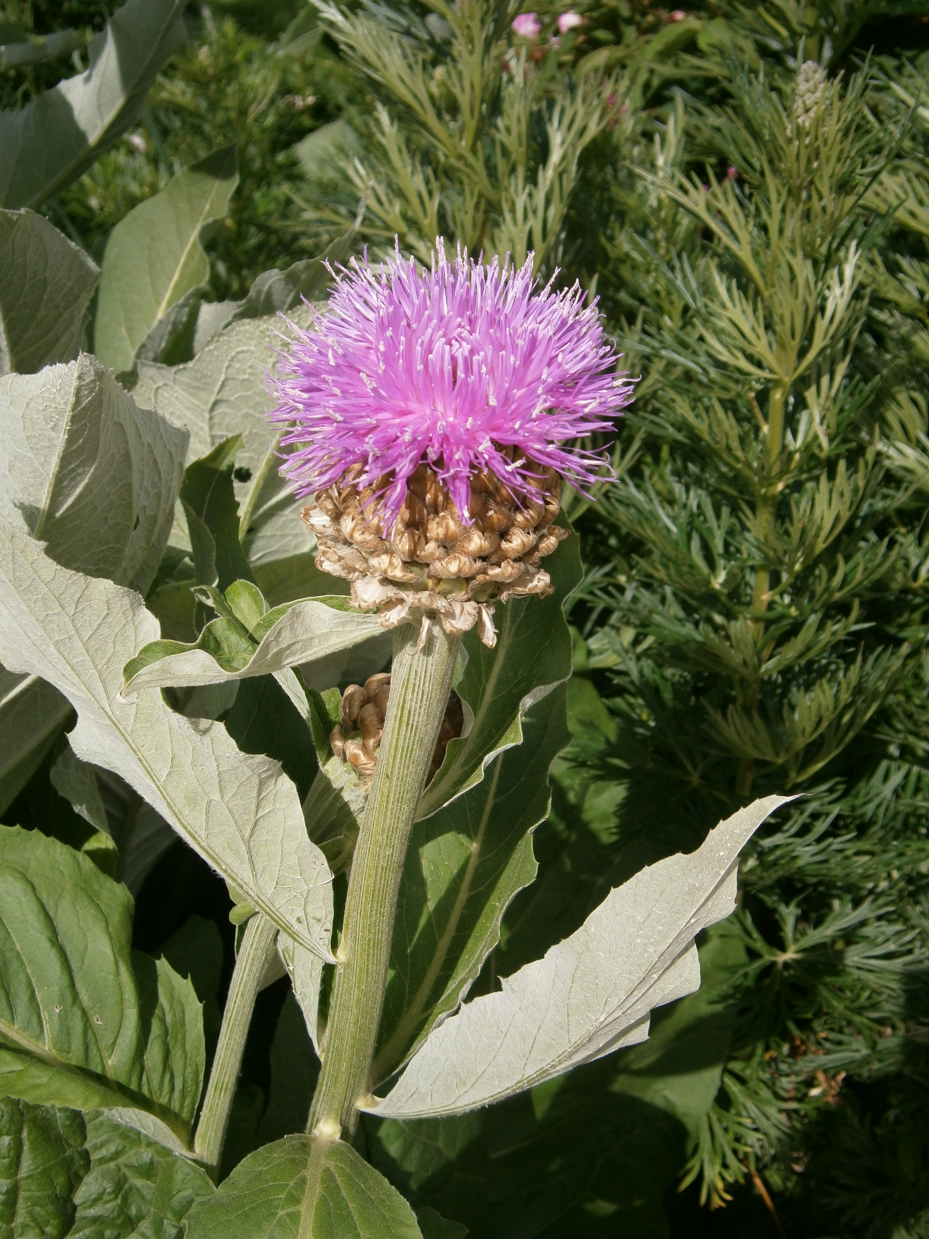 Rhaponticum scariosum in the Jardin Botanique Alpin du Lautaret